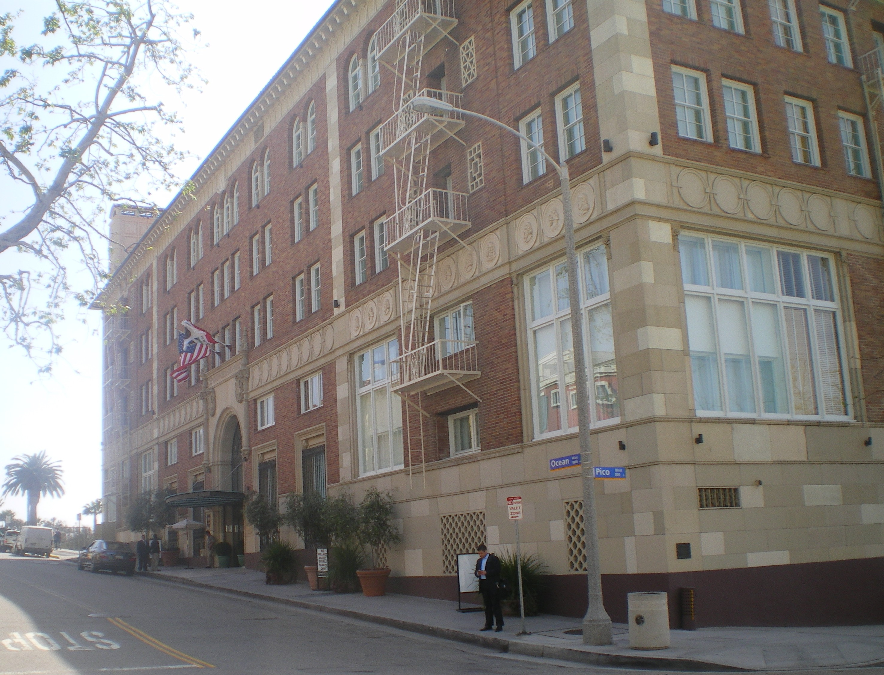 Casa Del Mar Hotel, Santa Monica, California. Built in a Neo-Renaissance-Mediterranean Revival style in 1926 as an elite beach club, now a hotel on the National Register of Historic Places.